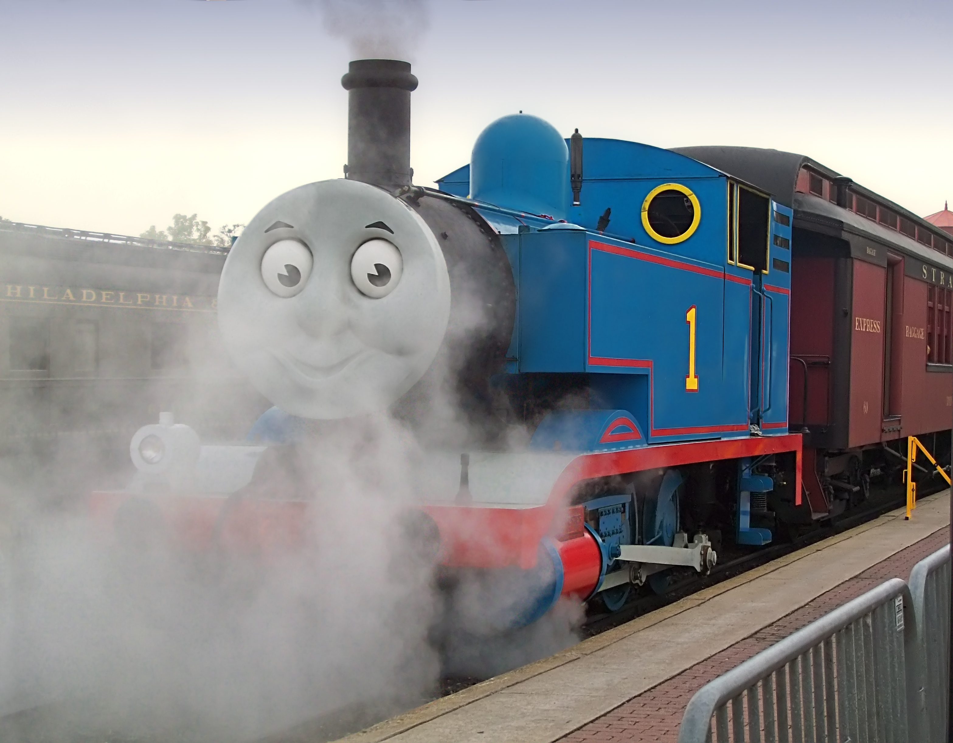 Strasburg Railroad, Lancaster County, Pennsylvania.